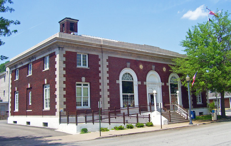 Photographed by Daniel Case 2007-05-30